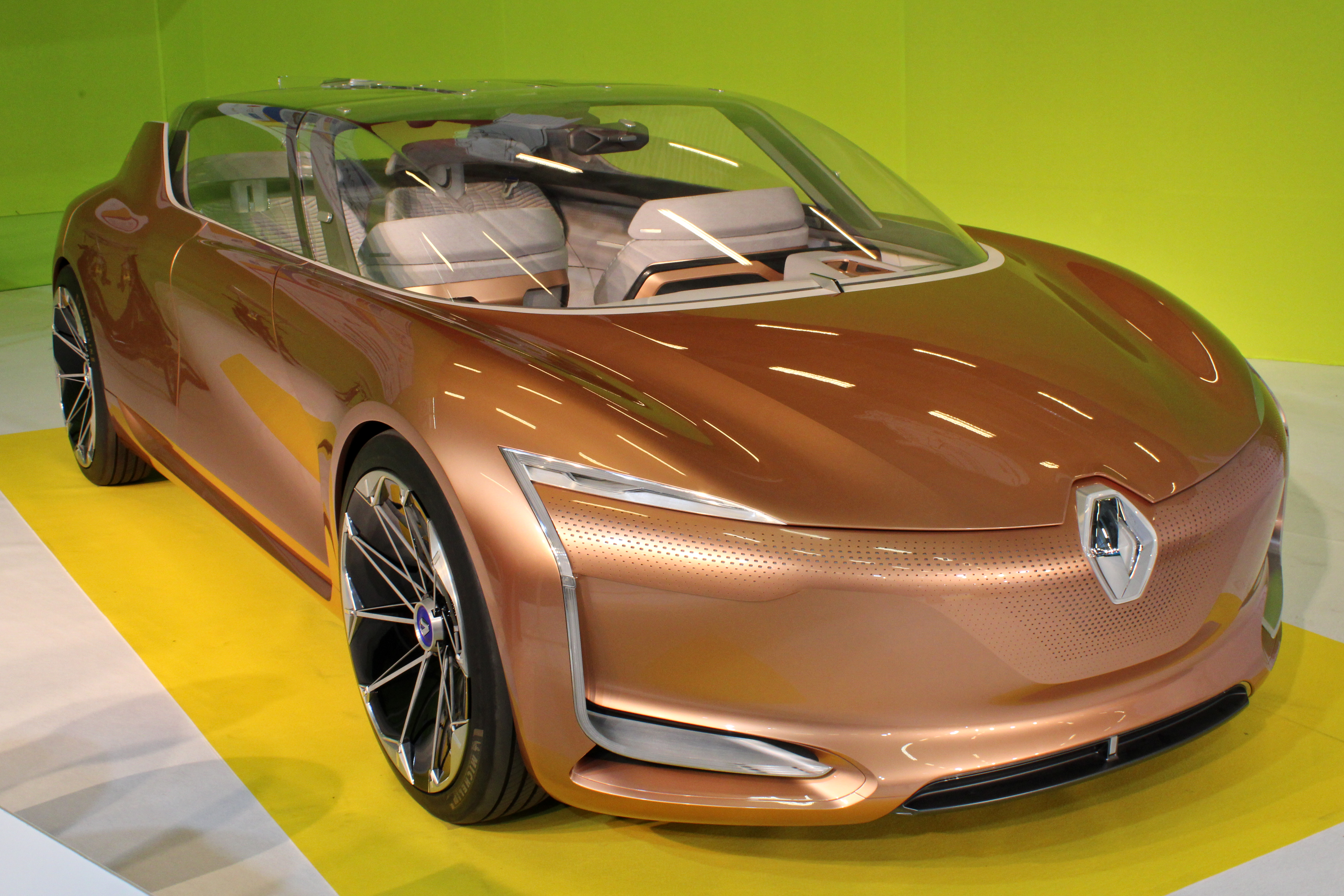 Renault Symbioz Concept (2017) at Paris Motor Show 2018